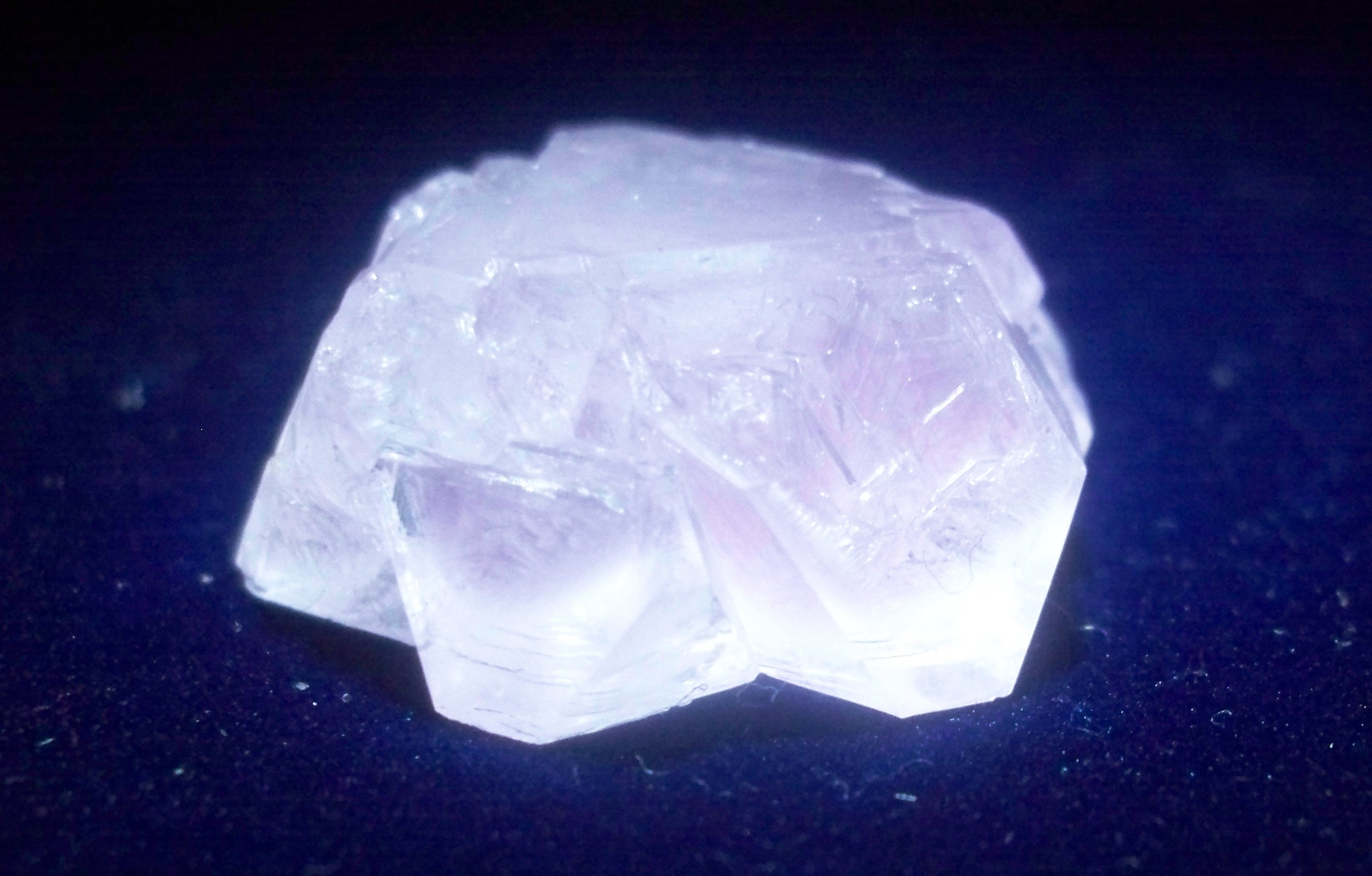 A selfmade Alum crystal. Weight: 5,01g